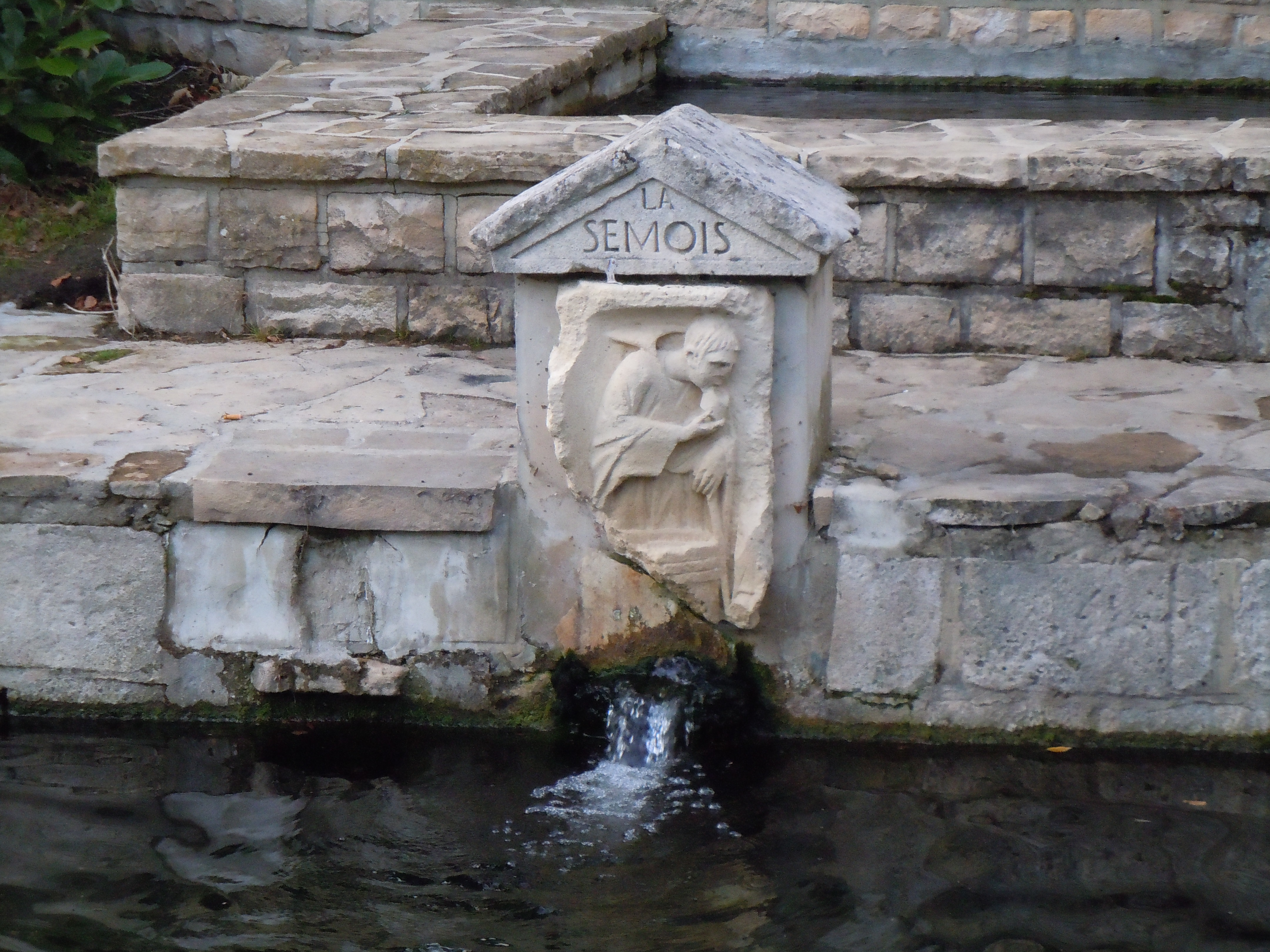 Sources of the Semois river in Arlon, Belgium.